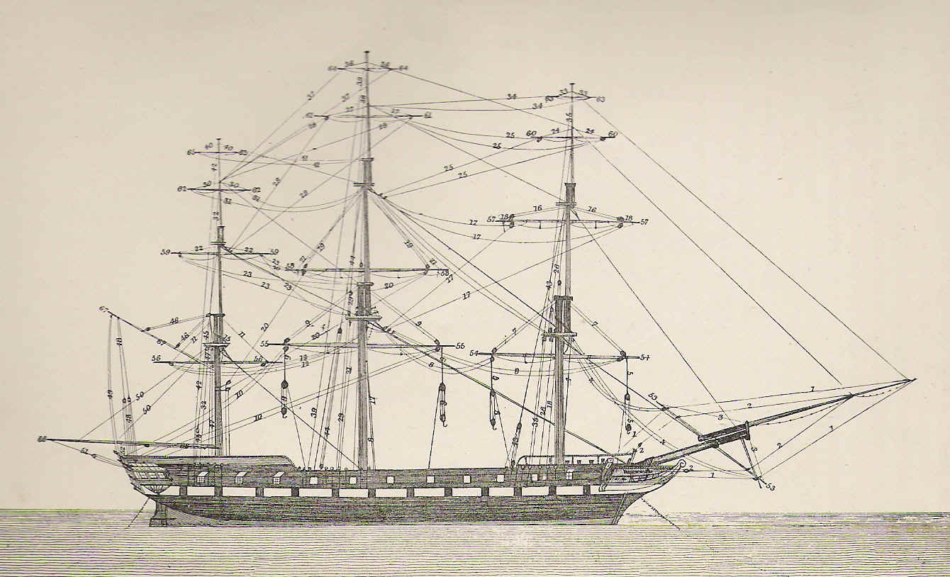 Diagram of running rigging on a square-rigged ship. Biddlecombe, George (1848) The Art of Rigging: Containing an Explanation of Terms and Phrases and the Progressive Method of Rigging Expressly Adapted for Sailing Ships, Oxford University, pp. 155 ISBN: 9780486263434.